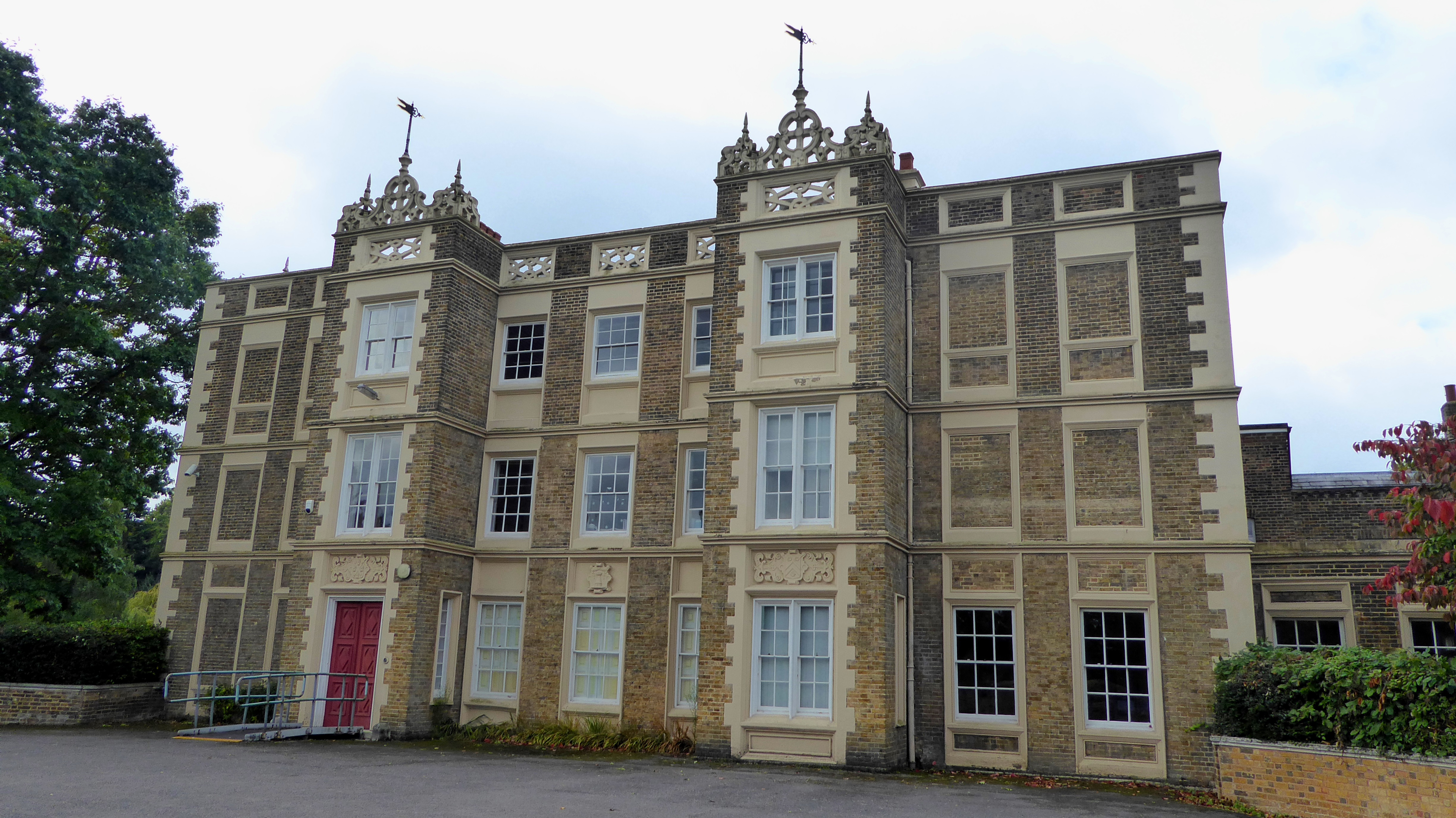 Lamorbey House in southeast London. Now part of Rose Bruford College. Taken from the front of the building.